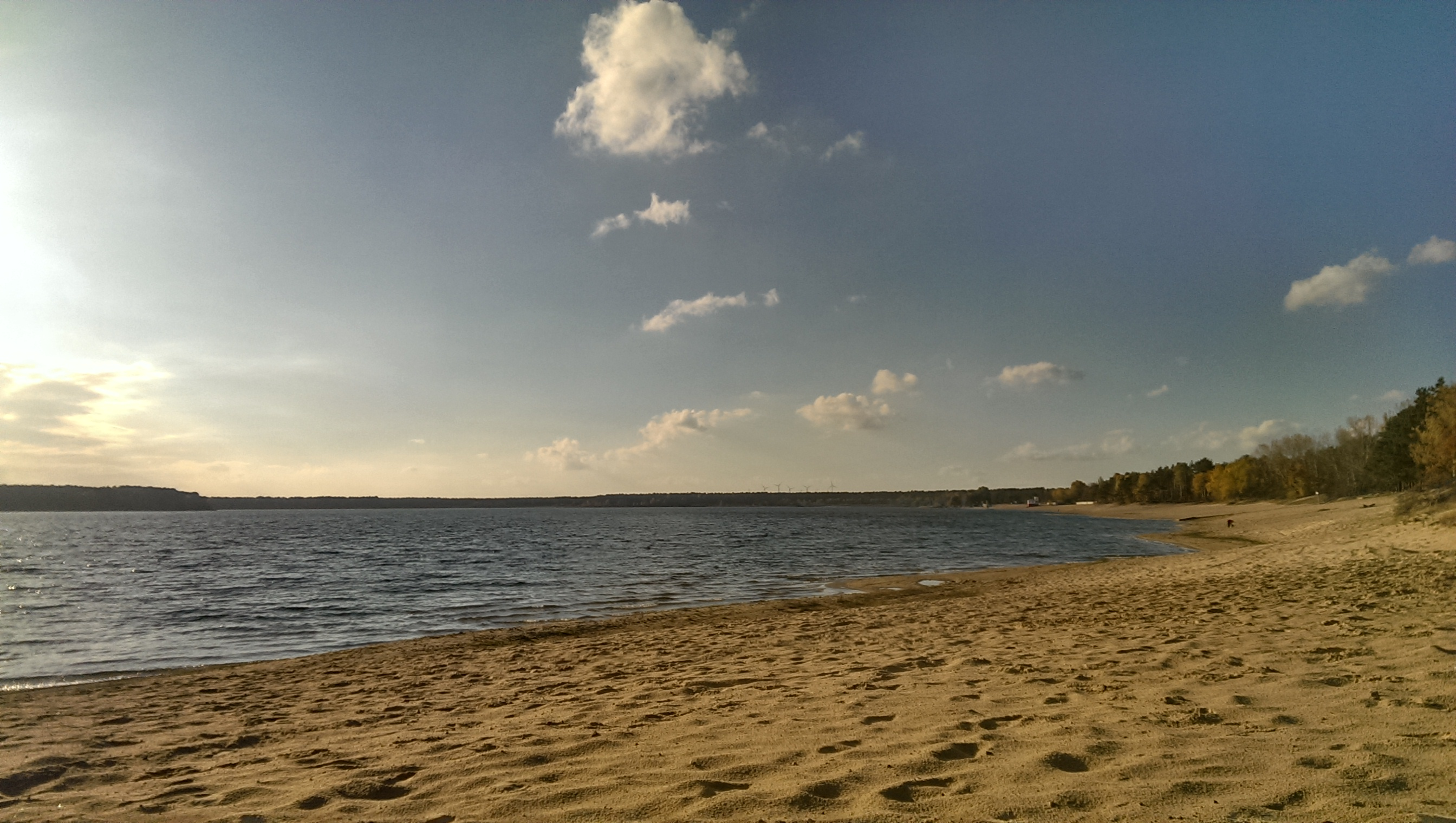 Lake Helenesee in Frankfurt (Oder), Brandenburg, Germany